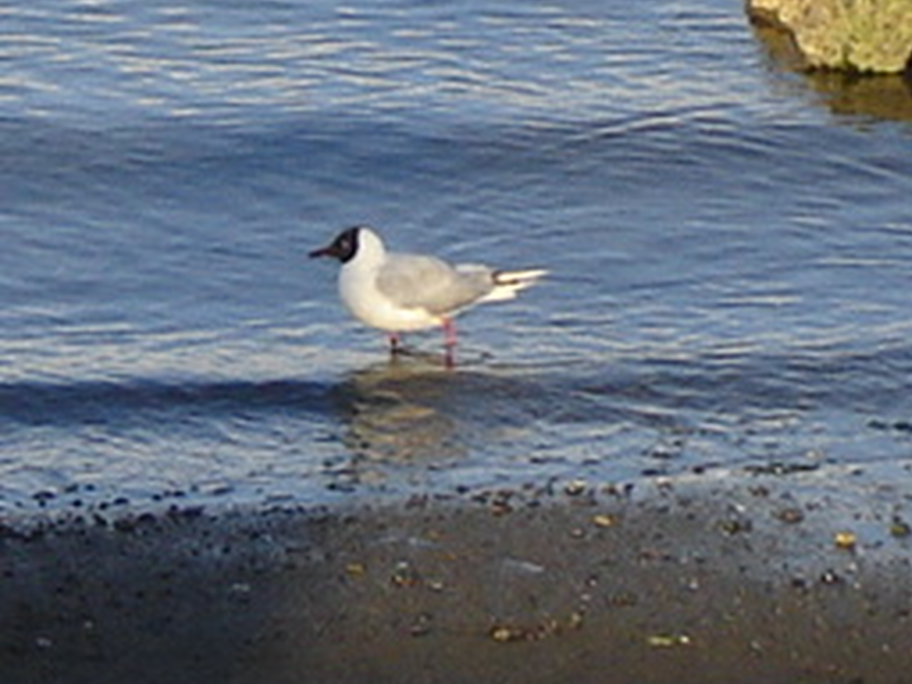 Gaviota en la playa